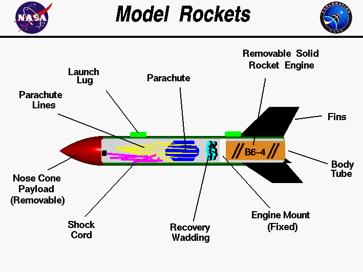 Diagram showing the various parts of a model rocket.